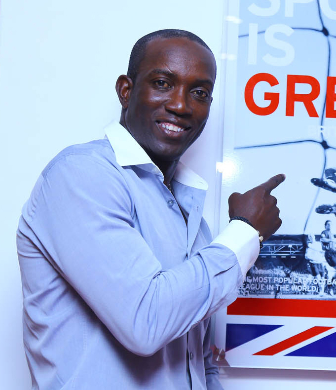 Dwight Yorke (former Manchester United legend) visited the British Deputy High Commission in Chennai on 27 June 2012. He did a football training session with children from the Slum Soccer charity. Follow us on